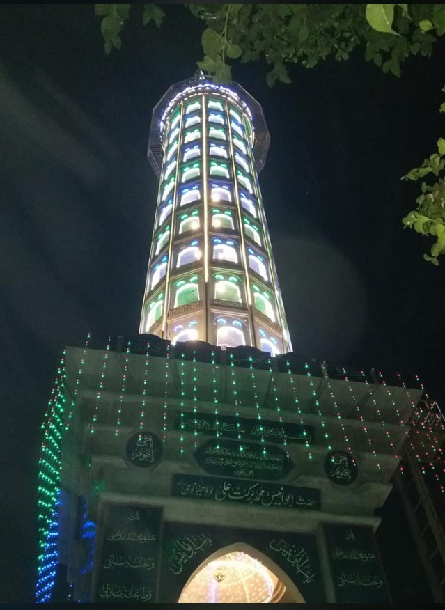 Sufi Barkat ALi Under Pass, New Flyover at Jhal Samundri road Chowk, This is a photo of a monument in Pakistan identified as the PB-25